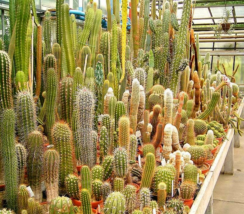 Cacti - BG Bochum, Germany